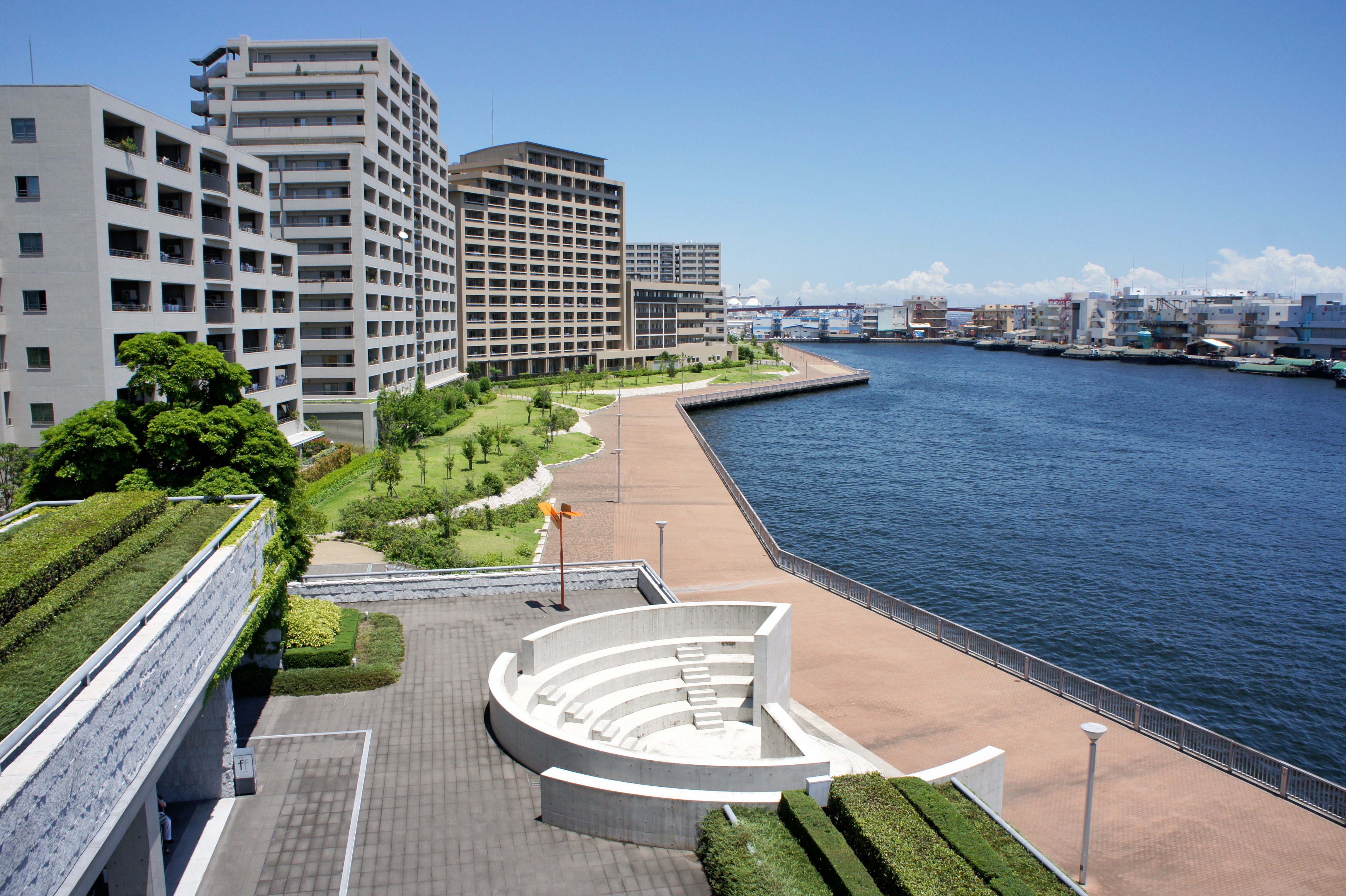 HAT Kobe in Kobe, Hyogo prefecture, Japan